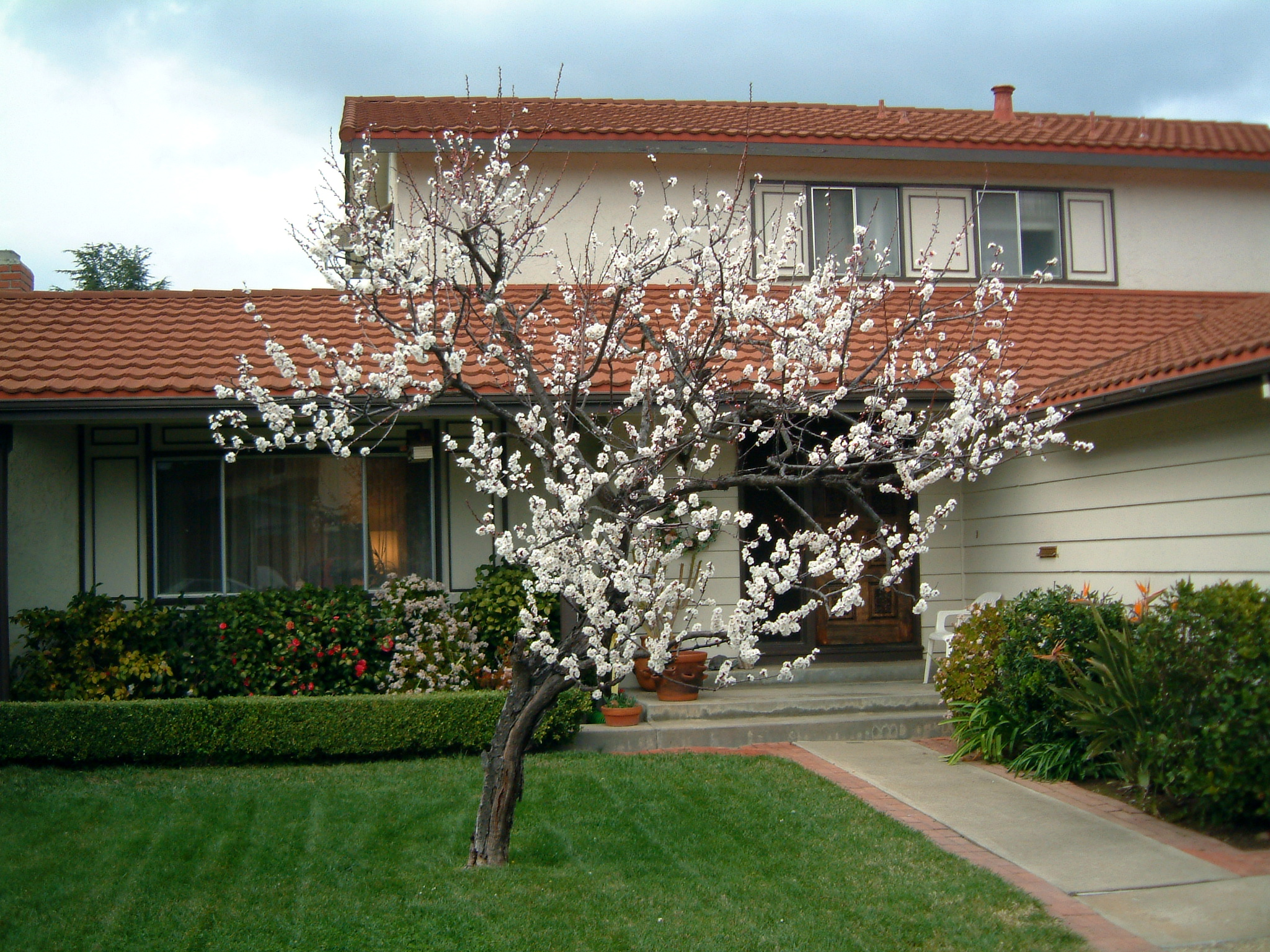 Apricot tree in spring bloom, Prunus armeniaca, in San Jose, California. Taken by John Pozniak on February 26, 2005, and released under the GFDL